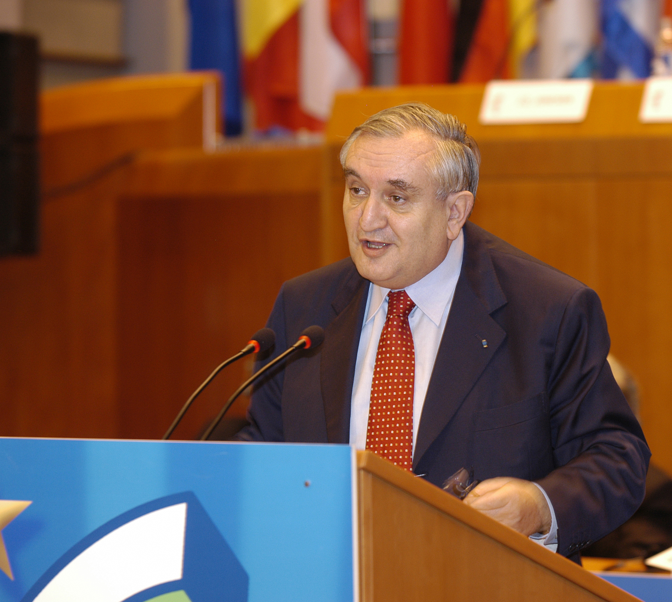 EPP Congress Brussels 4-5 February 2004